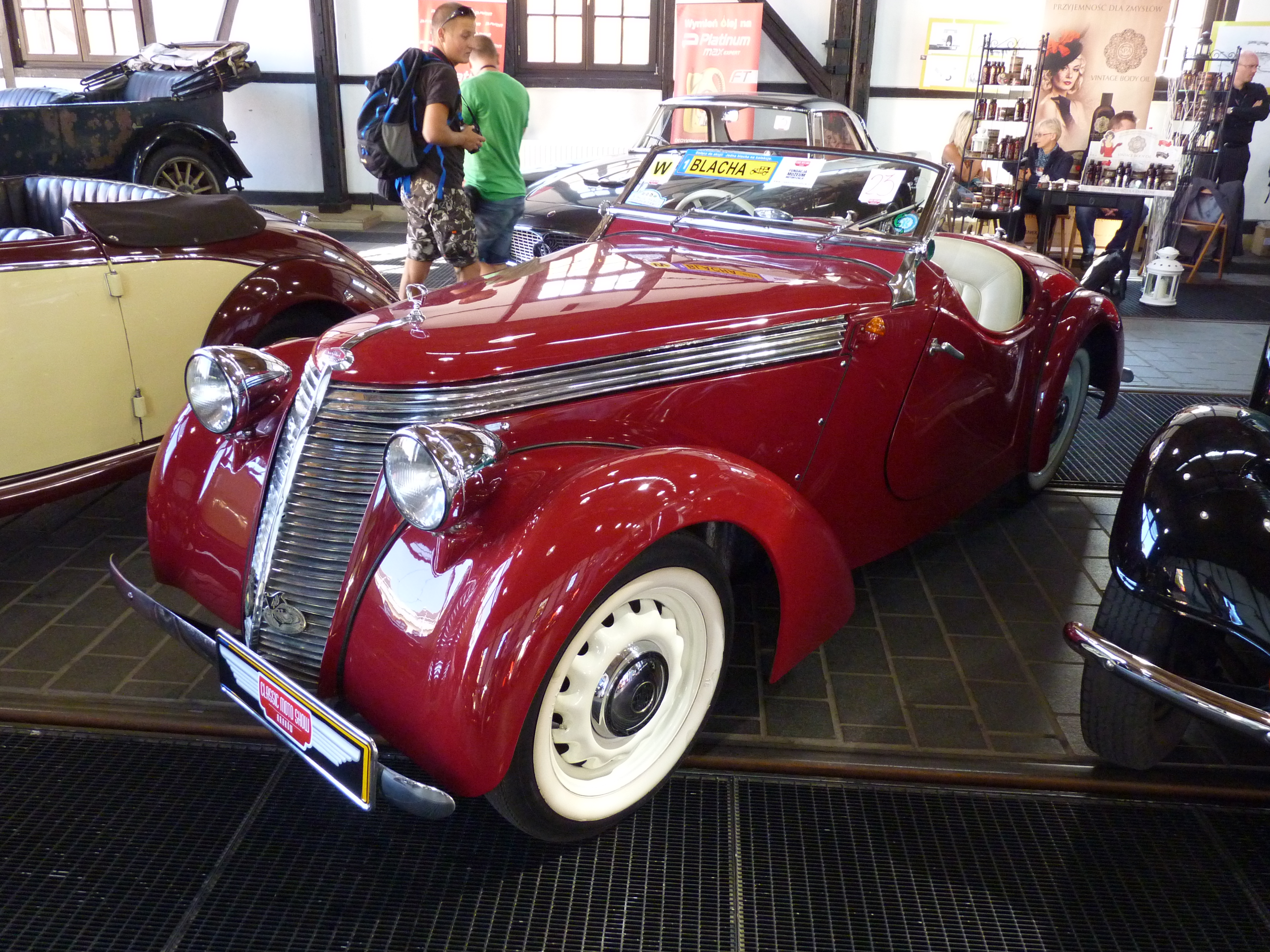 Classic Moto Show 2013